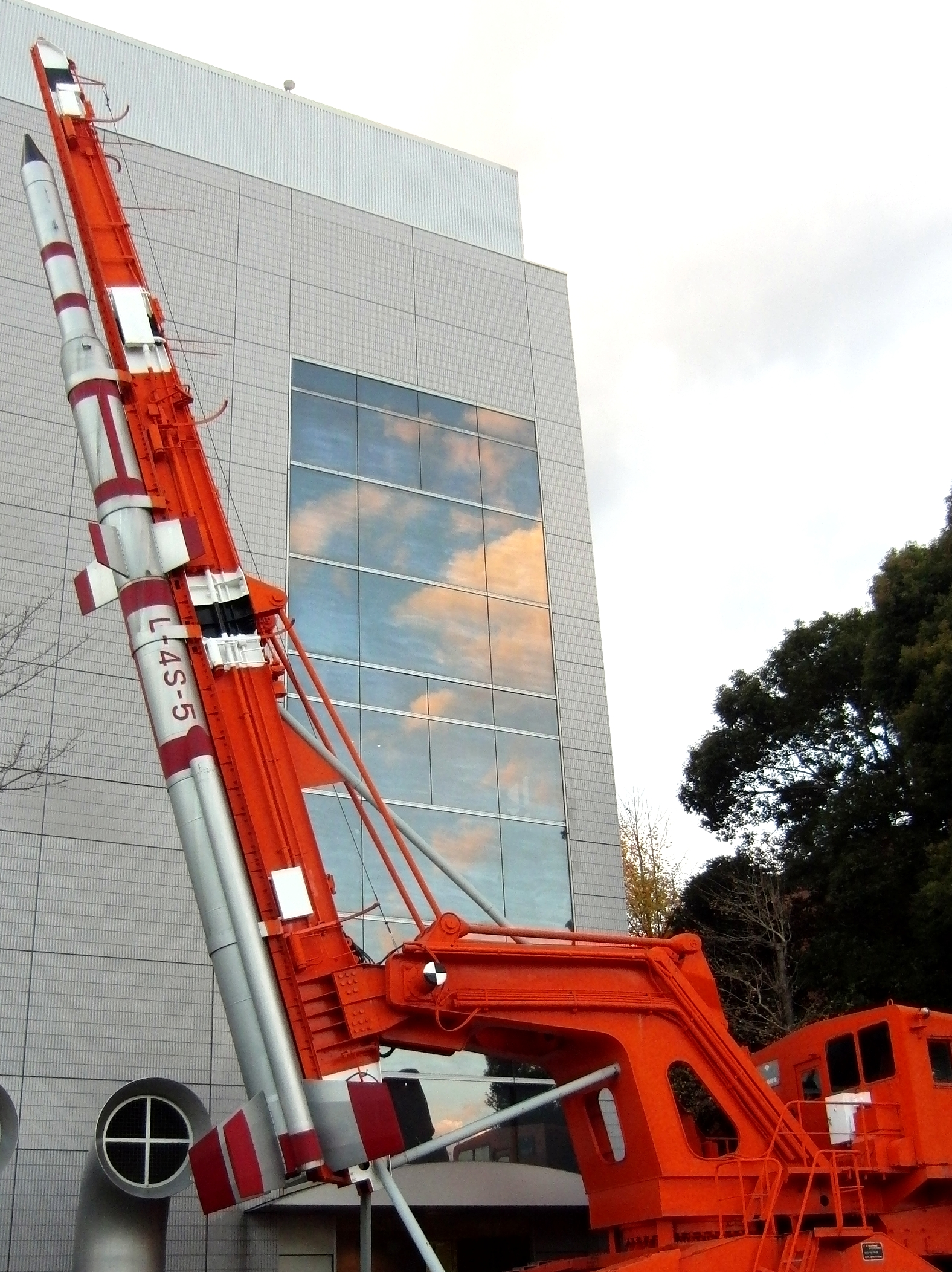 Lambda Rocket (L-4S), and Launcher. Exhibit in the National Museum of Nature and Science, Tokyo, Japan.